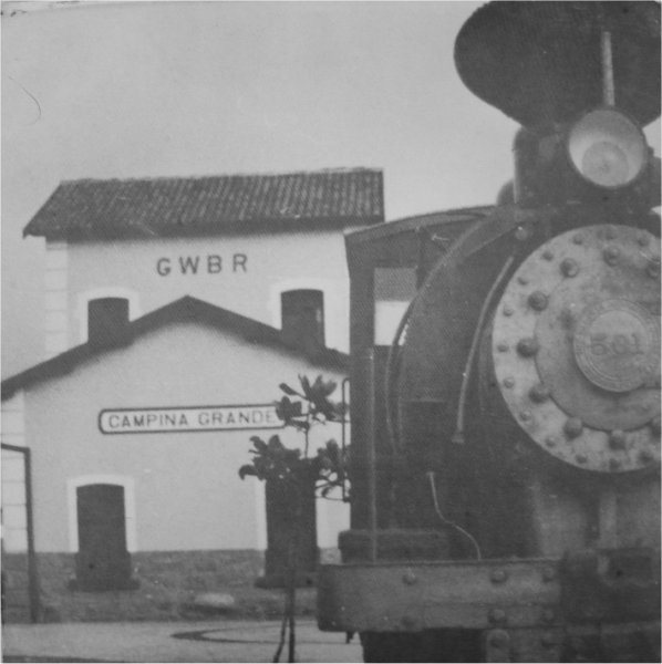 Ferrovia Great Western in Campina Grande, Brasil